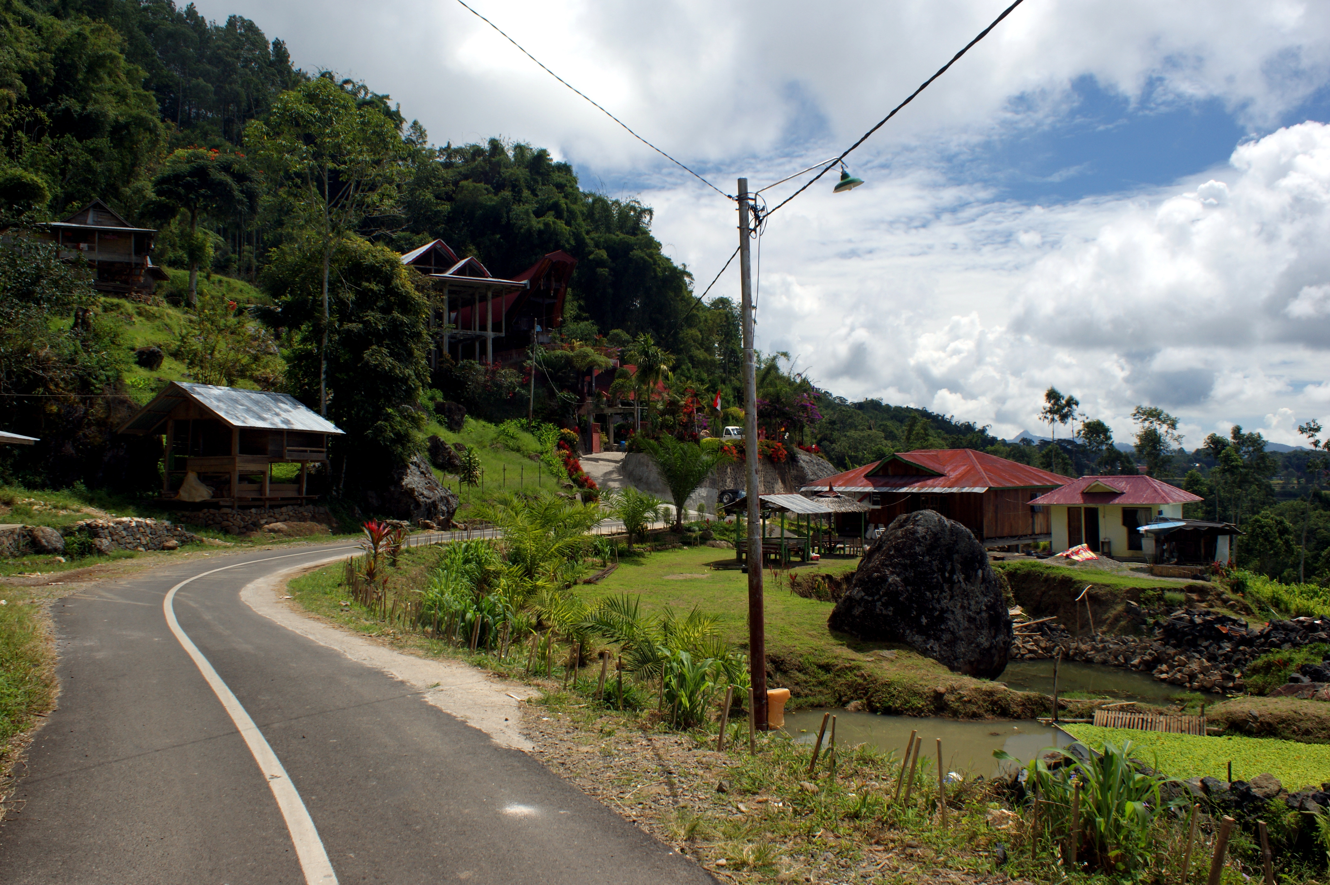 Main Street in Batutumonga